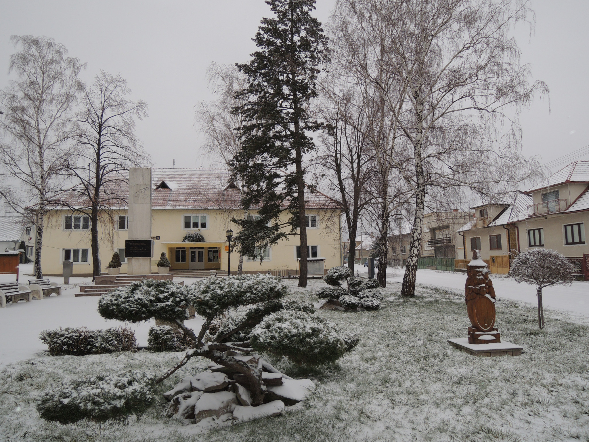 The Municipal Office and Post Office in the village of Cajkov in Nitra Region, Slovakia.